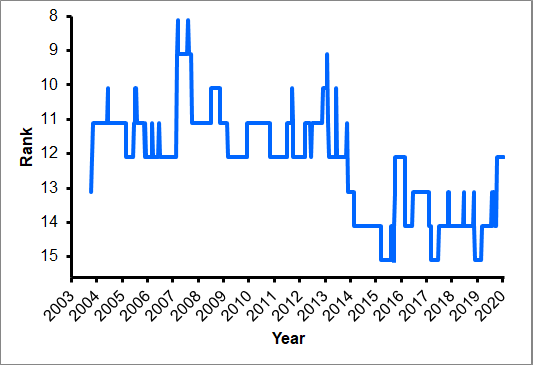 IRB World Rankings from